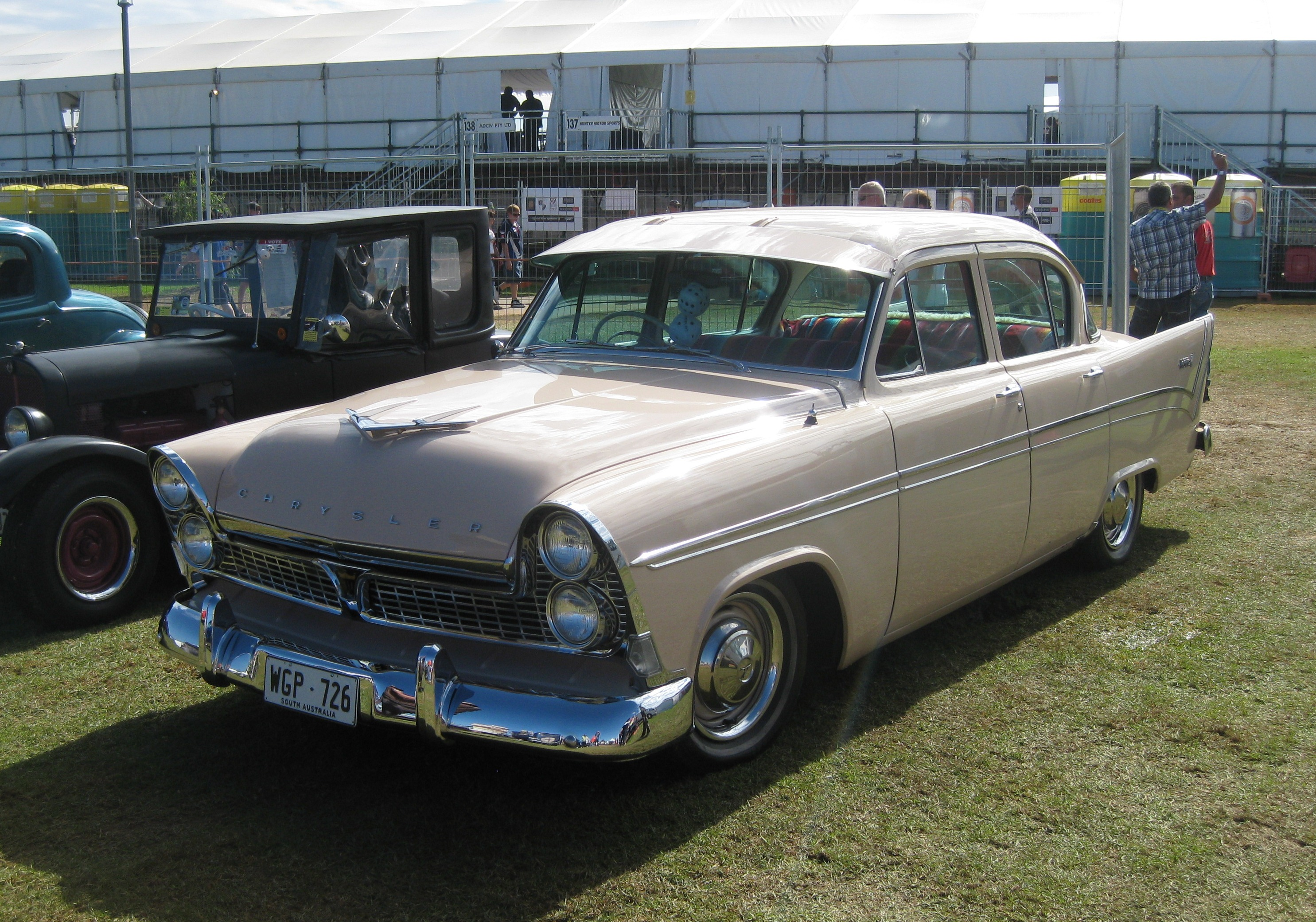 Chrysler AP3 Royal (1960-63)